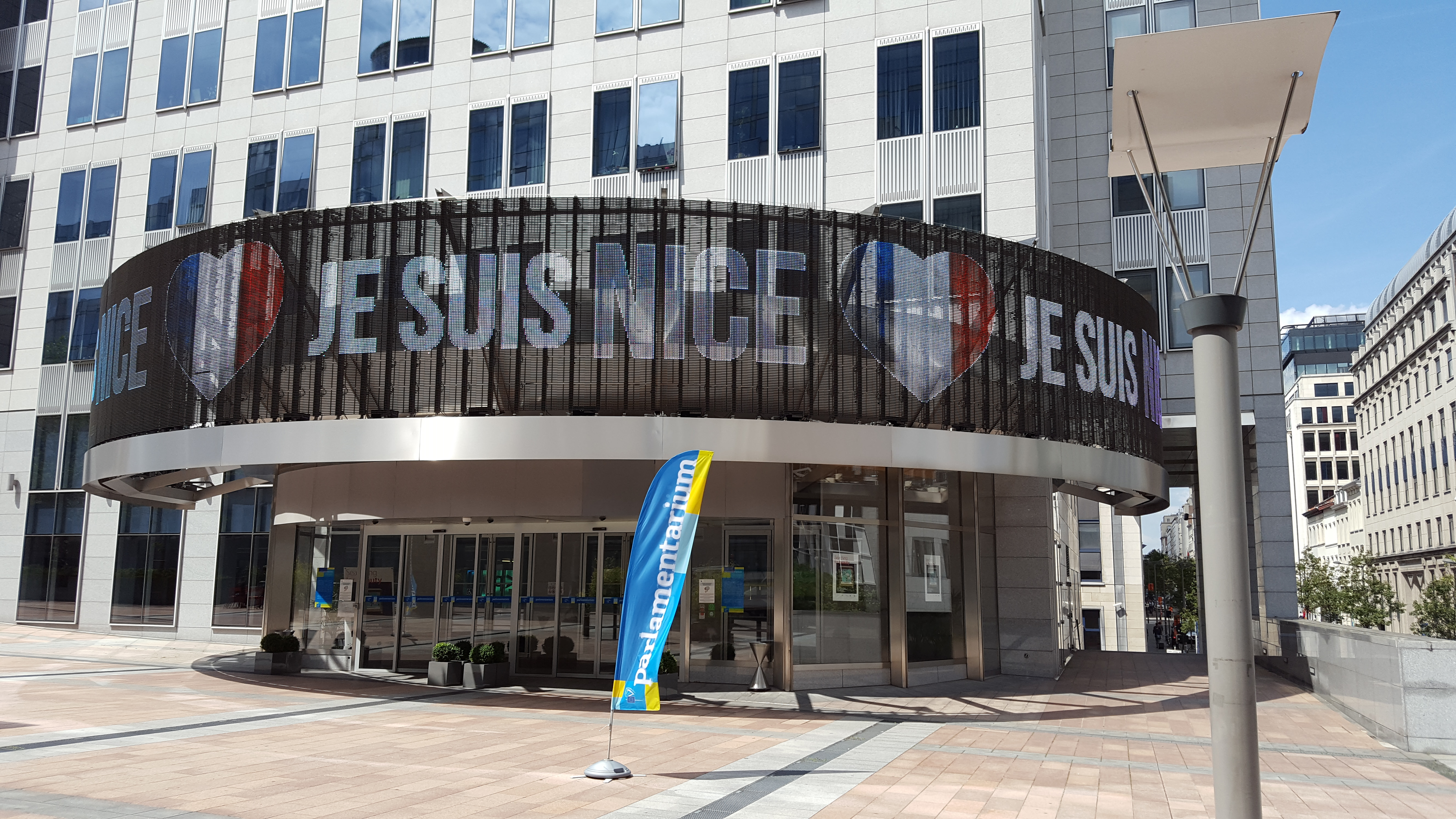 The Parlamentarium of the European Parliament of Brussels is showing on its screens on 15th July, 2016, a support message after the terror attack of the past day in Nice, France.